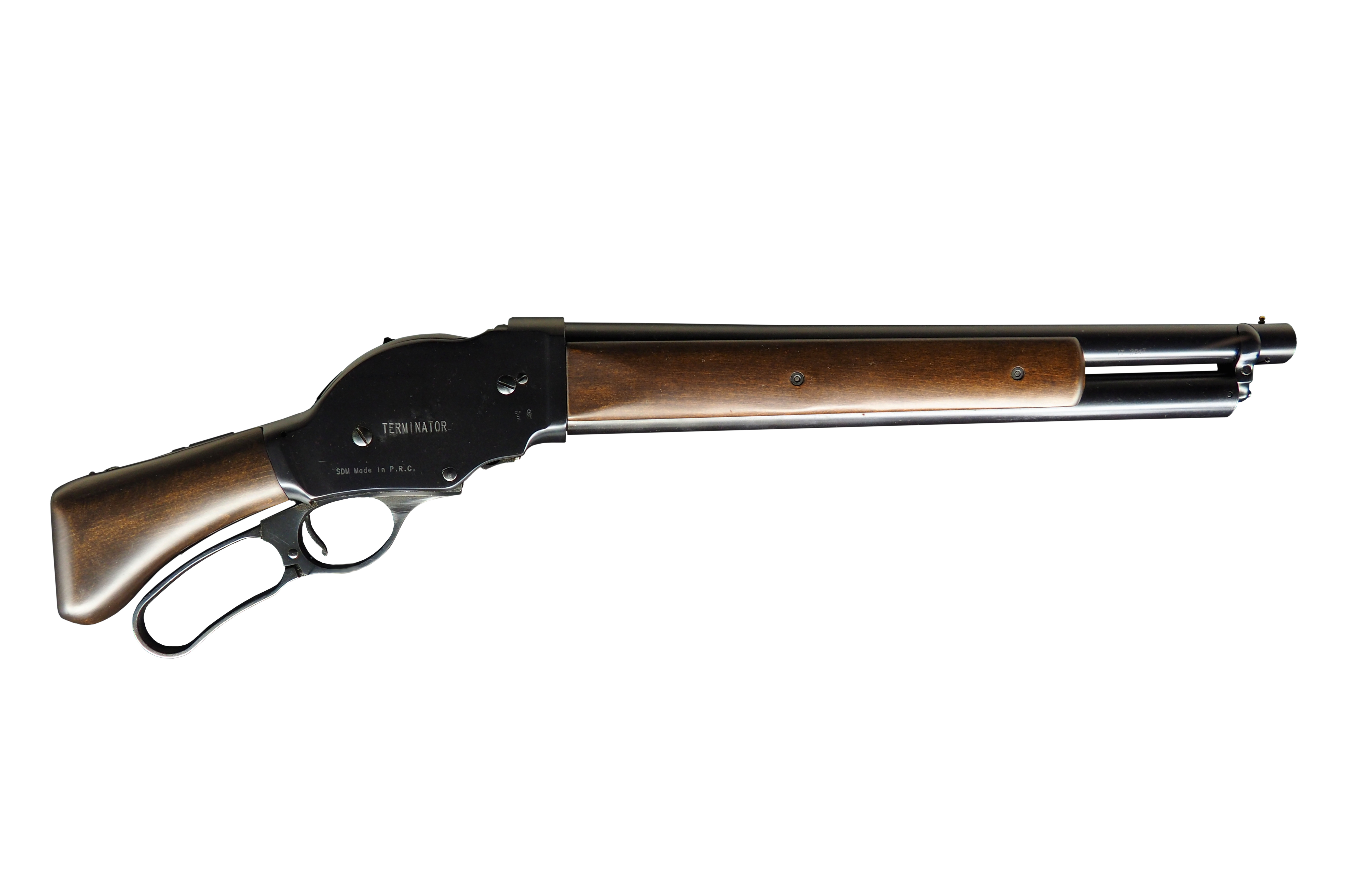 Saw-off Lever-action Winchester 1887 shotgun, as used in Terminator II. Collection of the shooting range of Yverdon-Les-Bains, Switzerland.